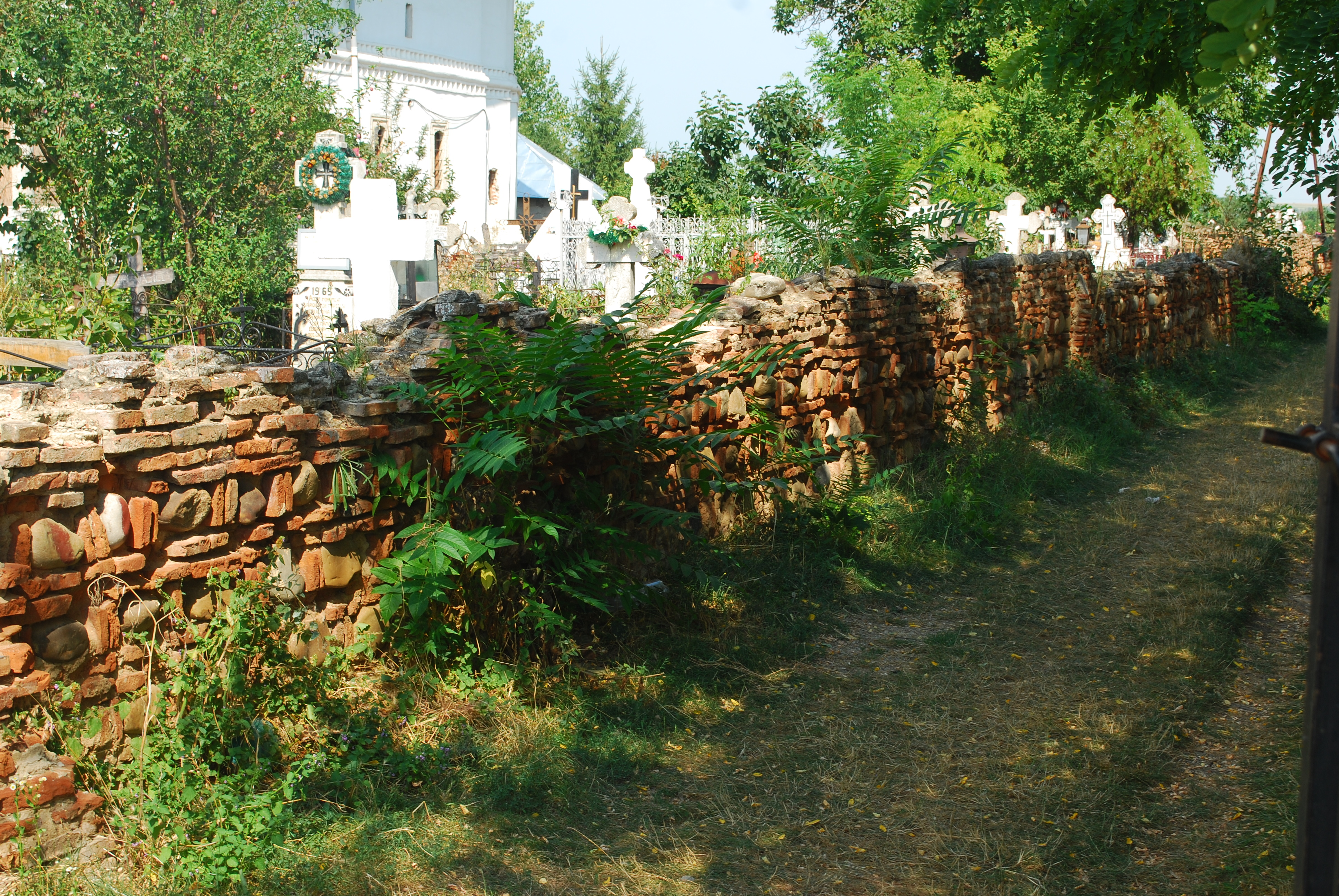 Historical stone wall around the church of the Anounciation in Vernești, Buzău County, RomaniaRomână: Zidul vechi de piatră din jurul bisericii Buna Vestire din Vernești, județul Buzău, România 02